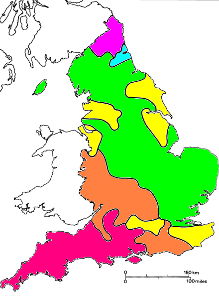 General limit of final post-vocalic /r/ in 'farmer' GREEN - [ə] YELLOW - [əɹ] ORANGE - [əɽ] PINK - [əɽ:] BLUE - [əʁ] VIOLET - [ɔʁ]